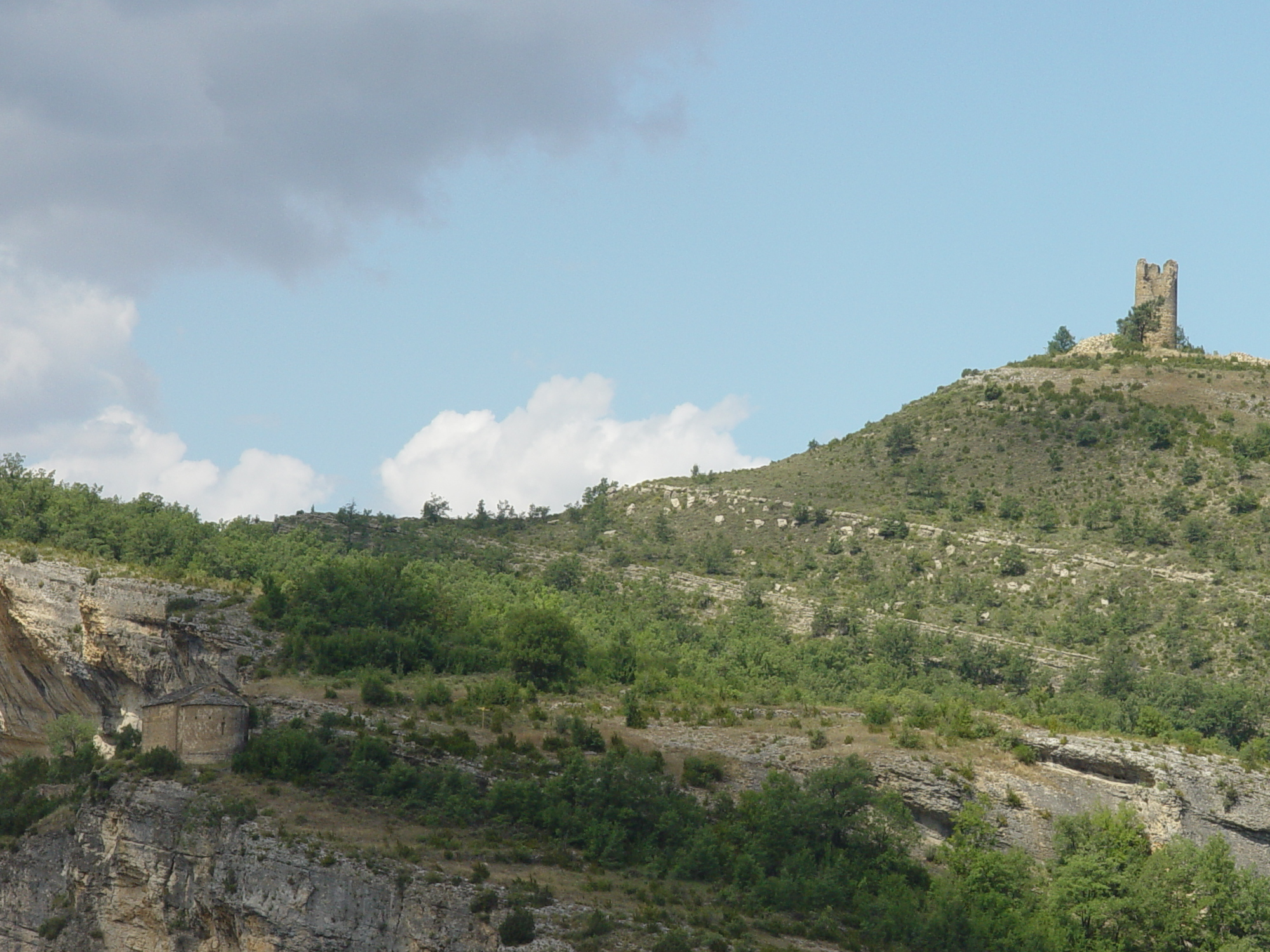 Ermita de la Mare de Déu del Congost de Girveta